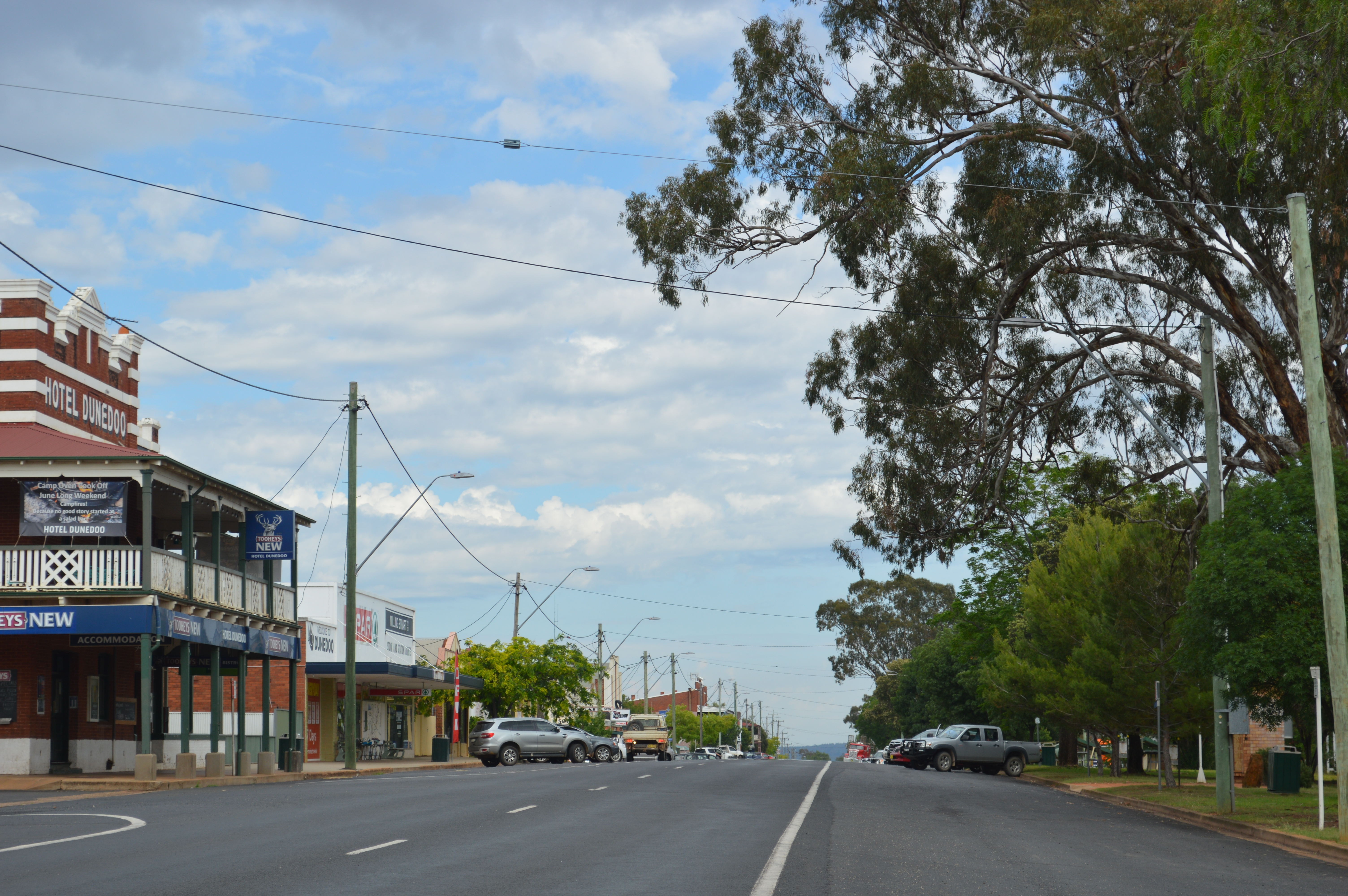 Bolaro Street (Castlereagh Highway), the main street of Dunedoo, New South Wales